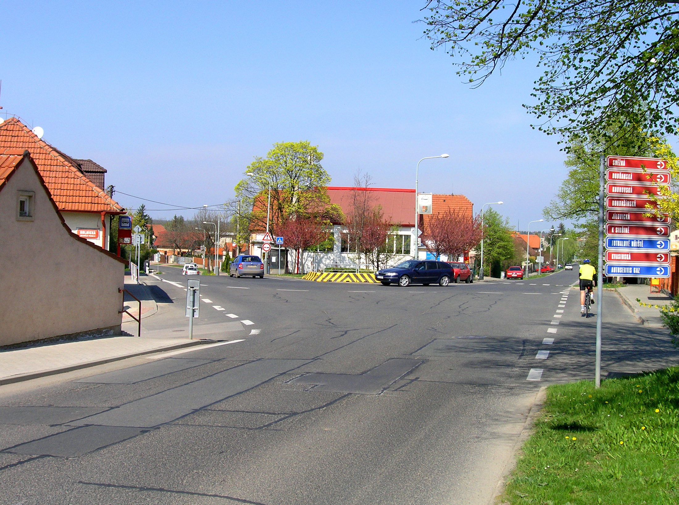 Intersection of V Lipách street with K Běchovicům street in Koloděje, Prague